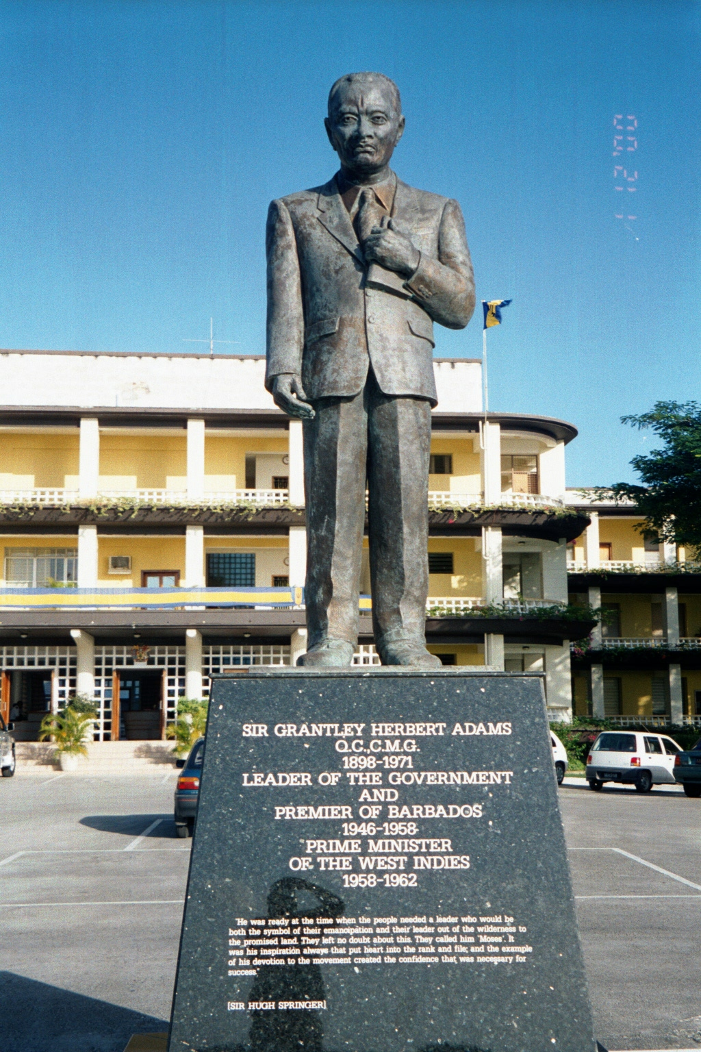 Bronze statue (completed by Karl Broodhagen) of Sir Grantley Adams in front of Government Headquarters complex on Bay Street in Barbados.